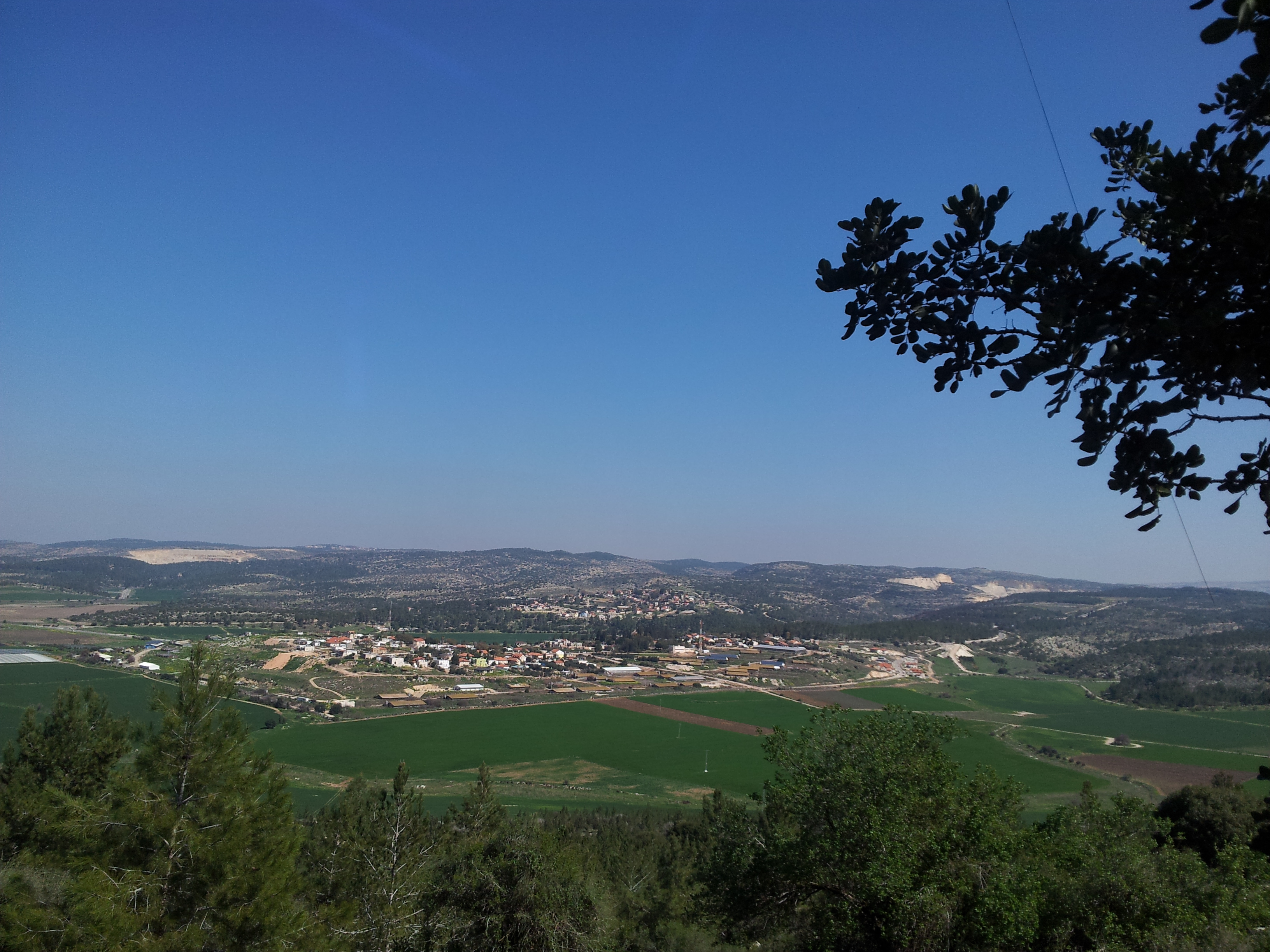 Kibbutz Netiv HaLamed-Heh